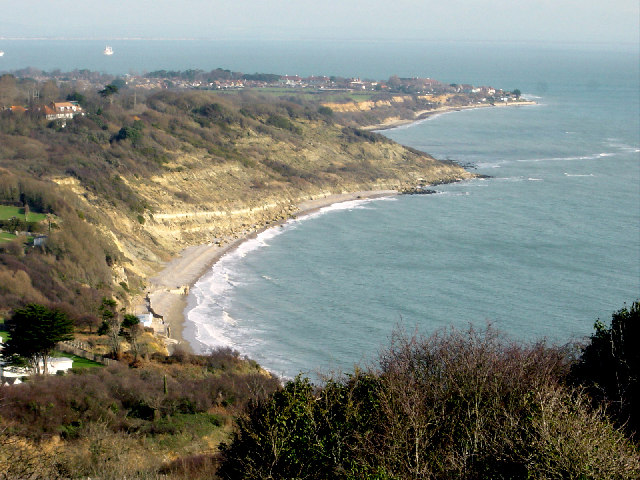 Whitecliff Bay and Black Rock, near Bembridge. Photograph taken from viewpoint at Culver Down looking north east towards Bembridge Foreland